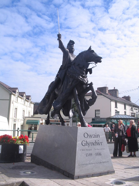 Corwen's new statue of Owain Glyndwr The life-size bronze of Wales' 15th Century hero on his battle horse is set on 8 tons of solid Welsh granite. This was installed on September 13th, 2007 and formally dedicated on November 9th by Sir Roger Jones.